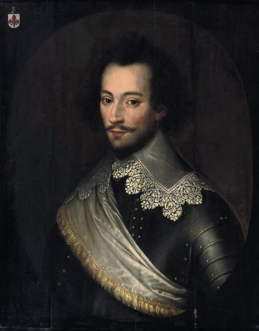 Portrait of Charles de Rechignevoisin (c. 1600-1649) in armour with a white lace collar and a white sash